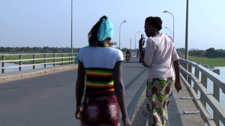 Libre circulation des biens et des personnes entre le Tchad et Cameroun This is an image with the theme "Africa on the Move or Transport" from: Chad